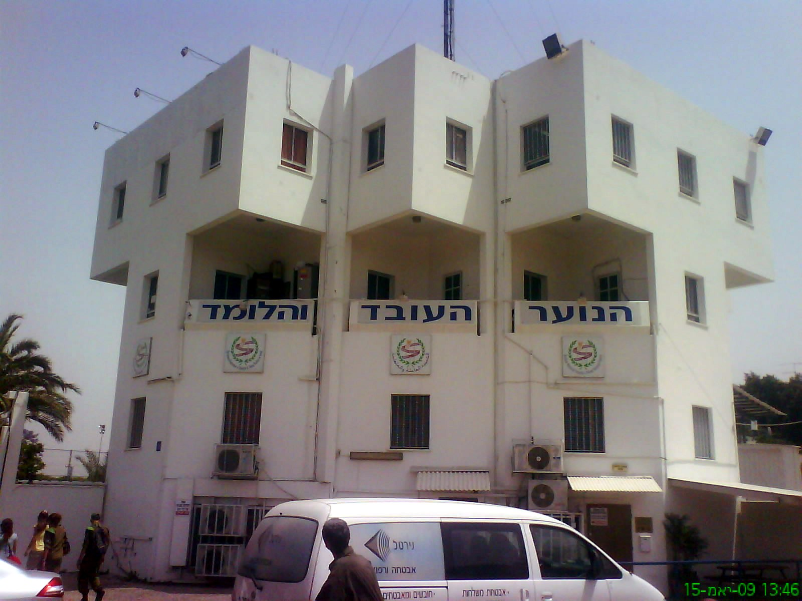 מרכז הנוער העובד והלומד, משכן ברנר וחבריו